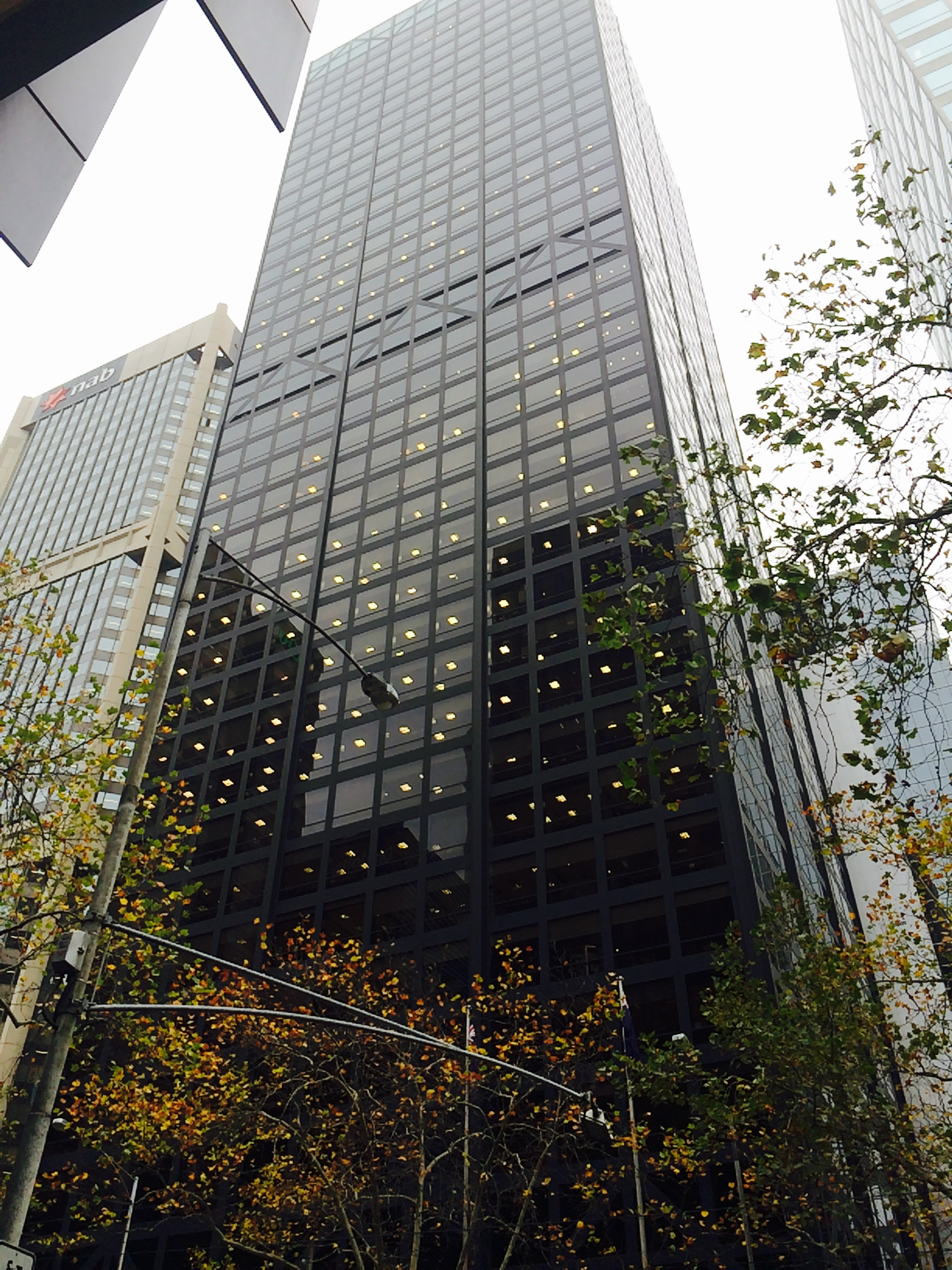 Photograph of BHP Houes 140 William Street, Melbourne